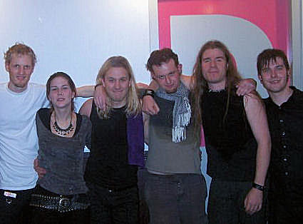 Live band of Delain